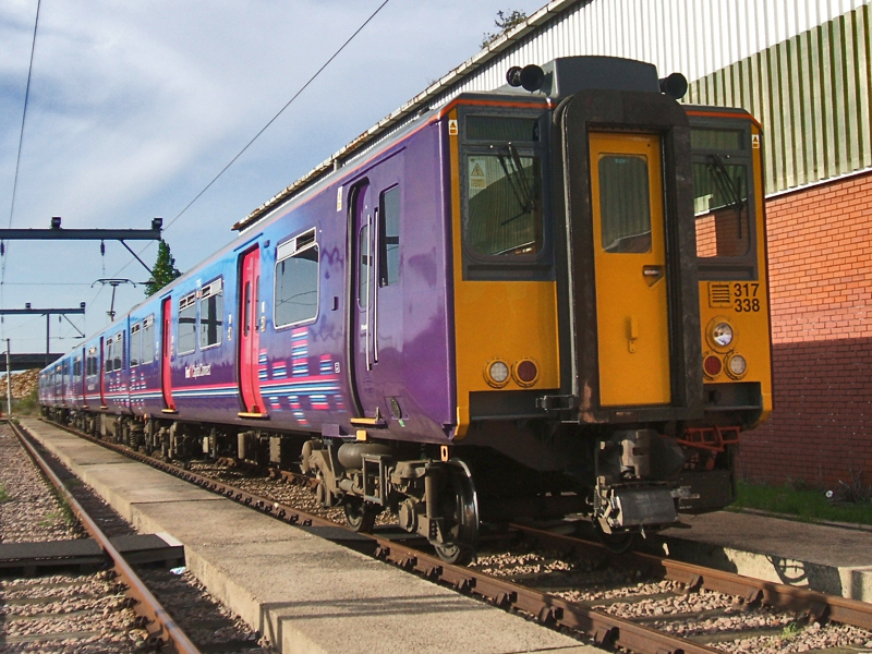 317338 stabled at Cricklewood Sidings